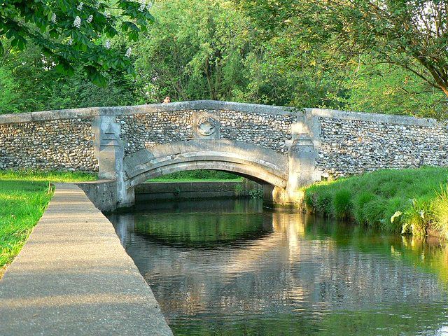 Bridge over the Wandle, Beddington Park The bridge is covered in flints.